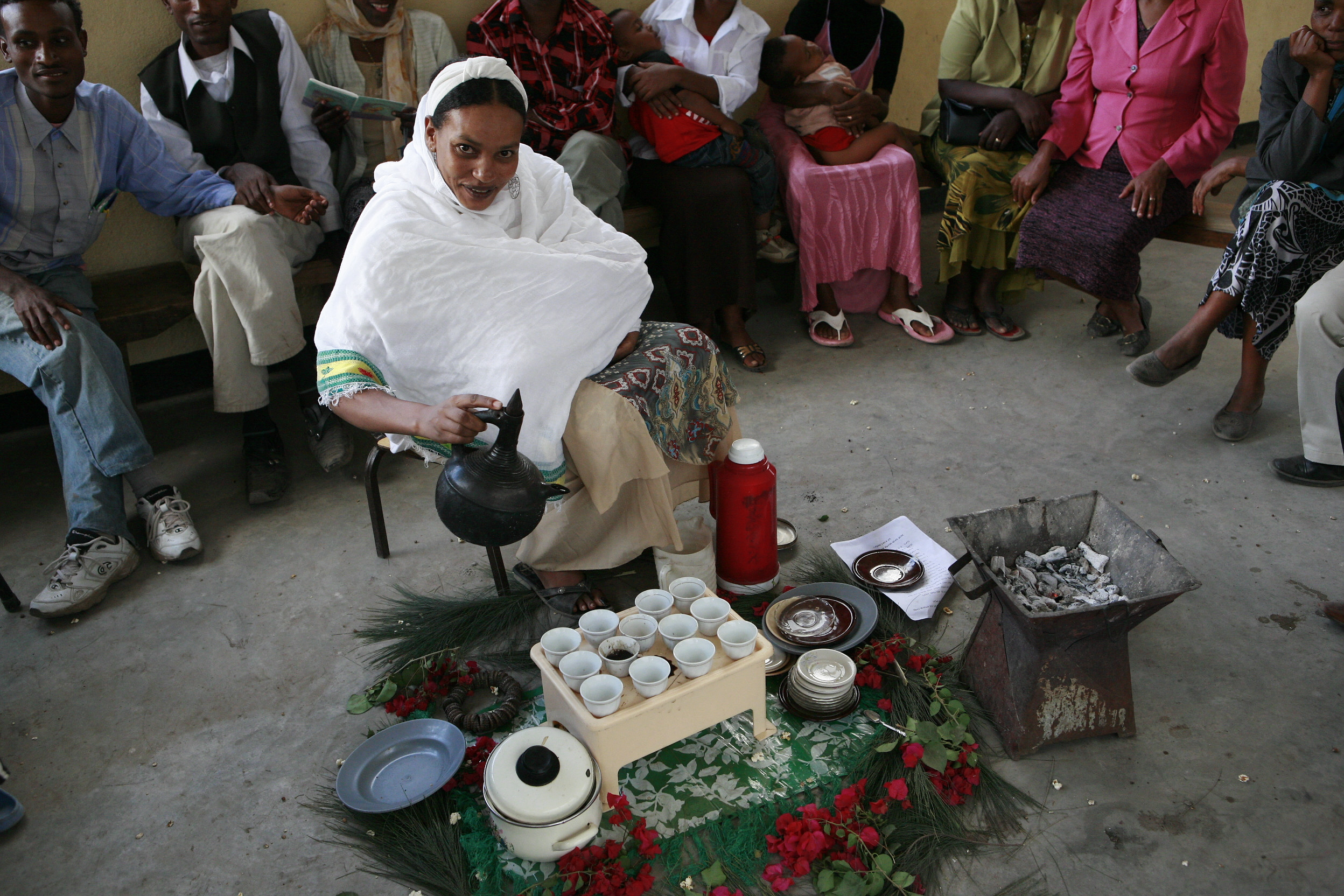 Ethiopan Coffee Ceremony 006